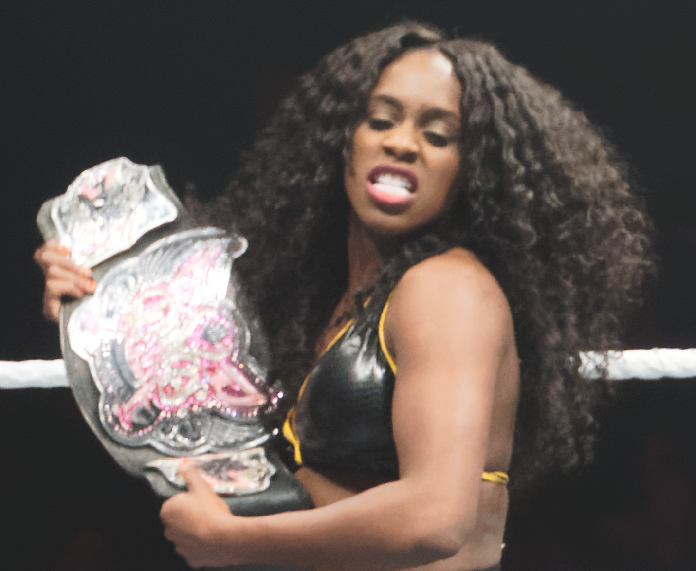 Naomi posing with the Divas Championship during a live event in 2015.